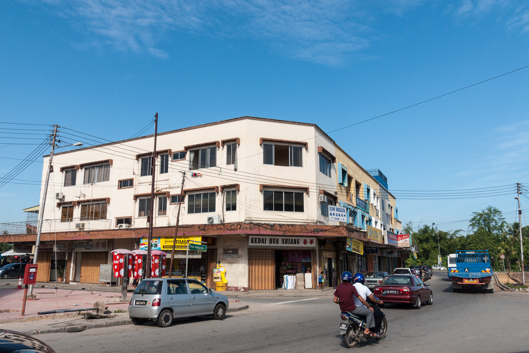 Menggatal, Sabah: Newer houses next to the colonial shop rows